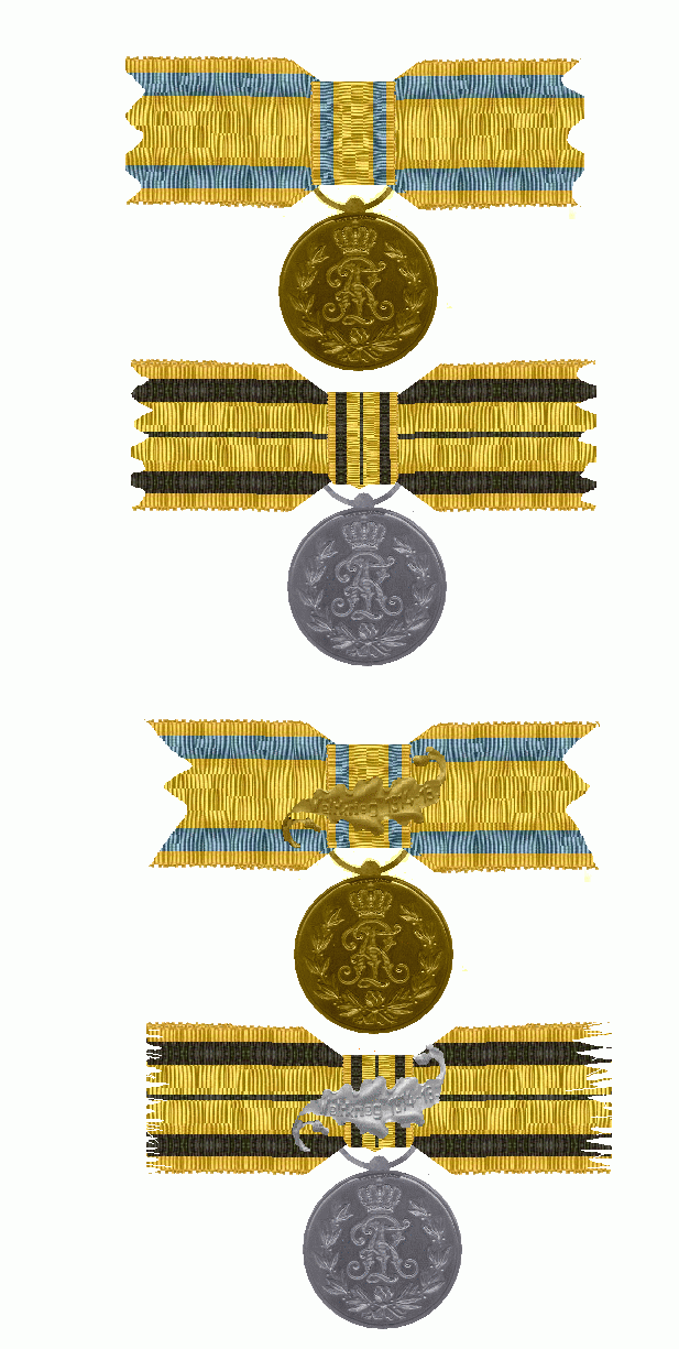 Medal of Saxen